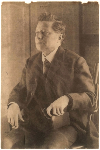 Peter Halm was a German engraver (1854-1923)